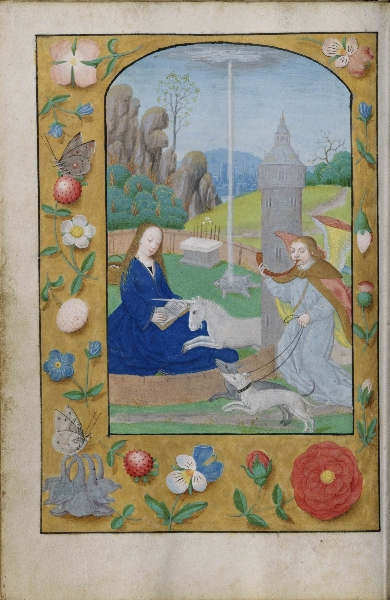 Hunt of the Unicorn Annunciation (ca. 1500) from a Netherlandish Book of Hours Credit: Joseph Zahavi/Morgan Library